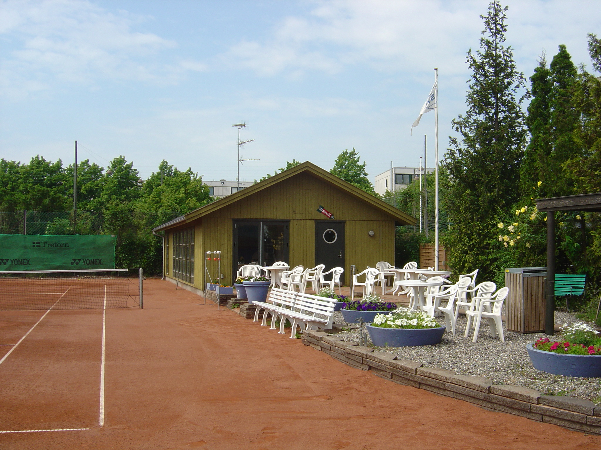 Sundby Tennisklub - the club house of a Danish tennis club in Sundby Idrætspark on Amager, Copenhagen. Seen from the east side, north of the tennis fields.